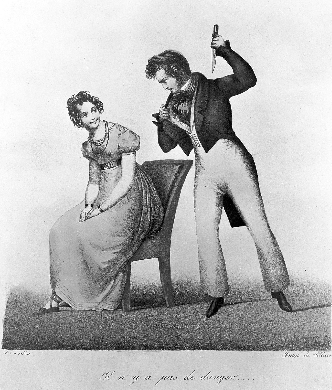 A young man holding a dagger threatens to kill himself while a young lady sitting on a chair next to him smiles at him, not taking his threat seriously. Coloured lithograph. Wellcome Images